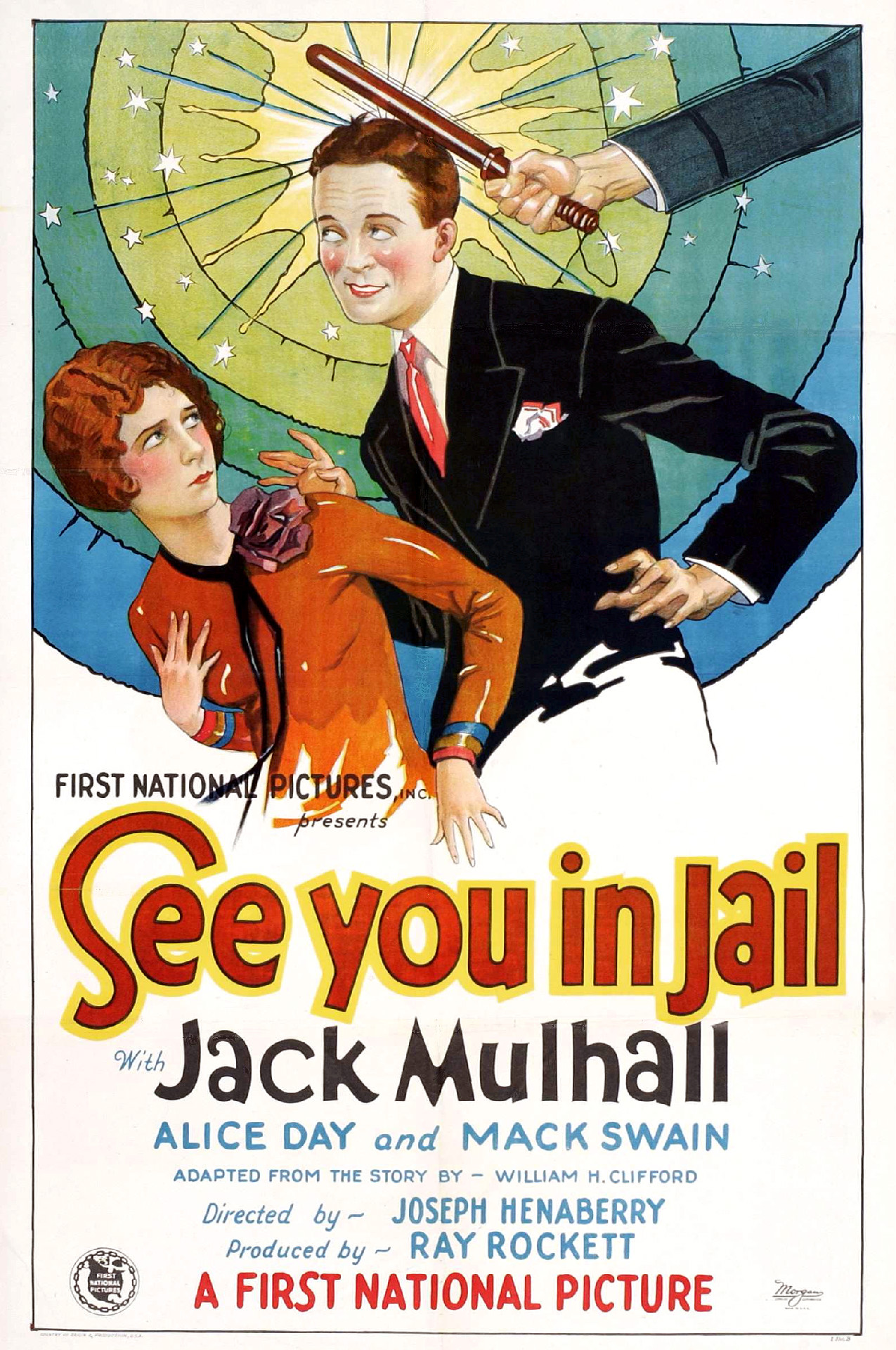 Poster for the 1927 film See You In Jail. Note false 2003 copyright notice placed by the auction house when this poster was sold by then in 2003. The film and its related materials date from 1927. Neither First National or Morgan (printer of the poster) placed an original copyright mark on it. There are no copyright marks on the item. At lower left is the First National logo and-Country of origin & production USA. At lower right is the Morgan Litho Company, Cleveland, logo--they printed the poster and "X 2 Jail 2X"-these appear to be related to the printing of the poster.